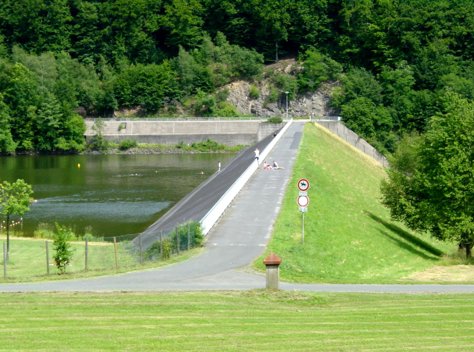 Ulmtal dam, Hesse, Germany